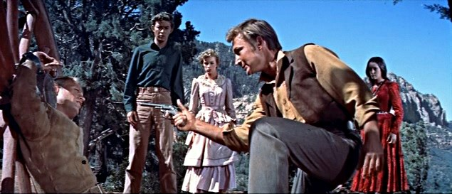 This image is a screenshot from a public domain trailer for the 1956 film, The Last Wagon . Trailers for movies released before 1964 are in the Public Domain because they were never separately copyrighted.